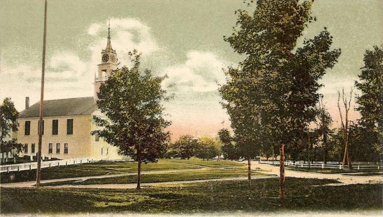 Congregational Church and Common (Second Rindge Meetinghouse, Horsesheds and Cemetery) — Rindge Center, New Hampshire